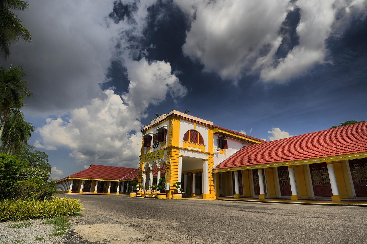 SAHC PRIME BUILDING. The Sultan Abdul Hamid College (SAHC, now Kolej Sultan Abdul Hamid) is a premier school in Alor Star, Malaysia. Formerly known as the Government English School, it is one of the oldest English schools to be established in the country. It boasts of an illustrious alumni roster that includes Prime Ministers Mahathir bin Mohamad (b. 1925)